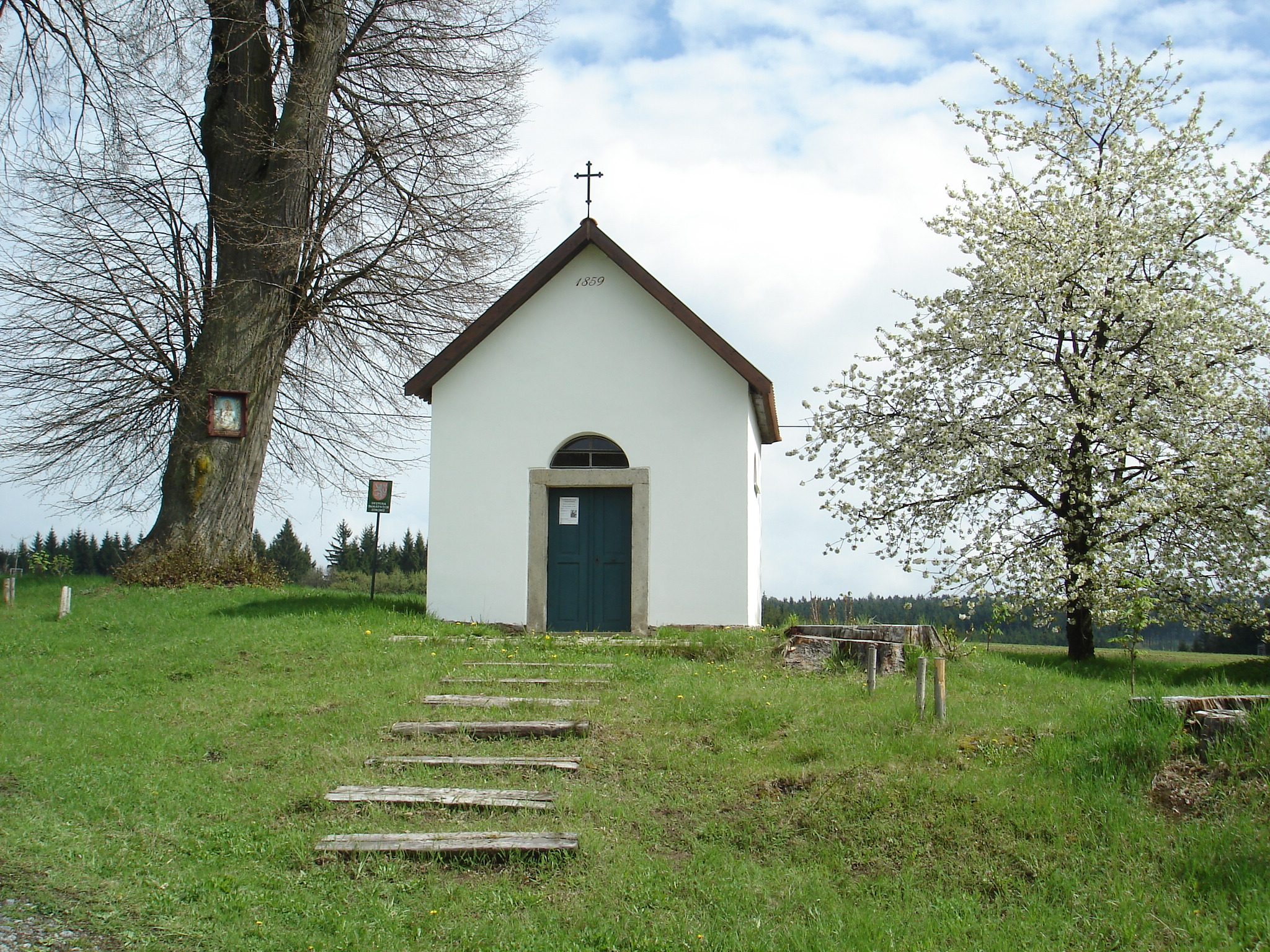 Nepomuky - kaplička z roku 1859